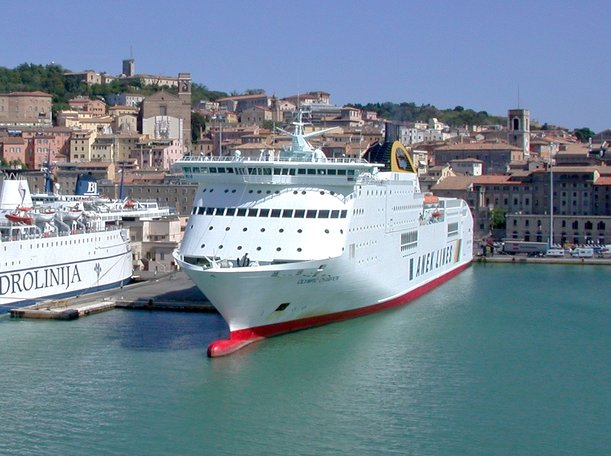 Port of Ancona, Anek Lines (H/S/F Olympic Champion, SYWD, IMO: 9216028)